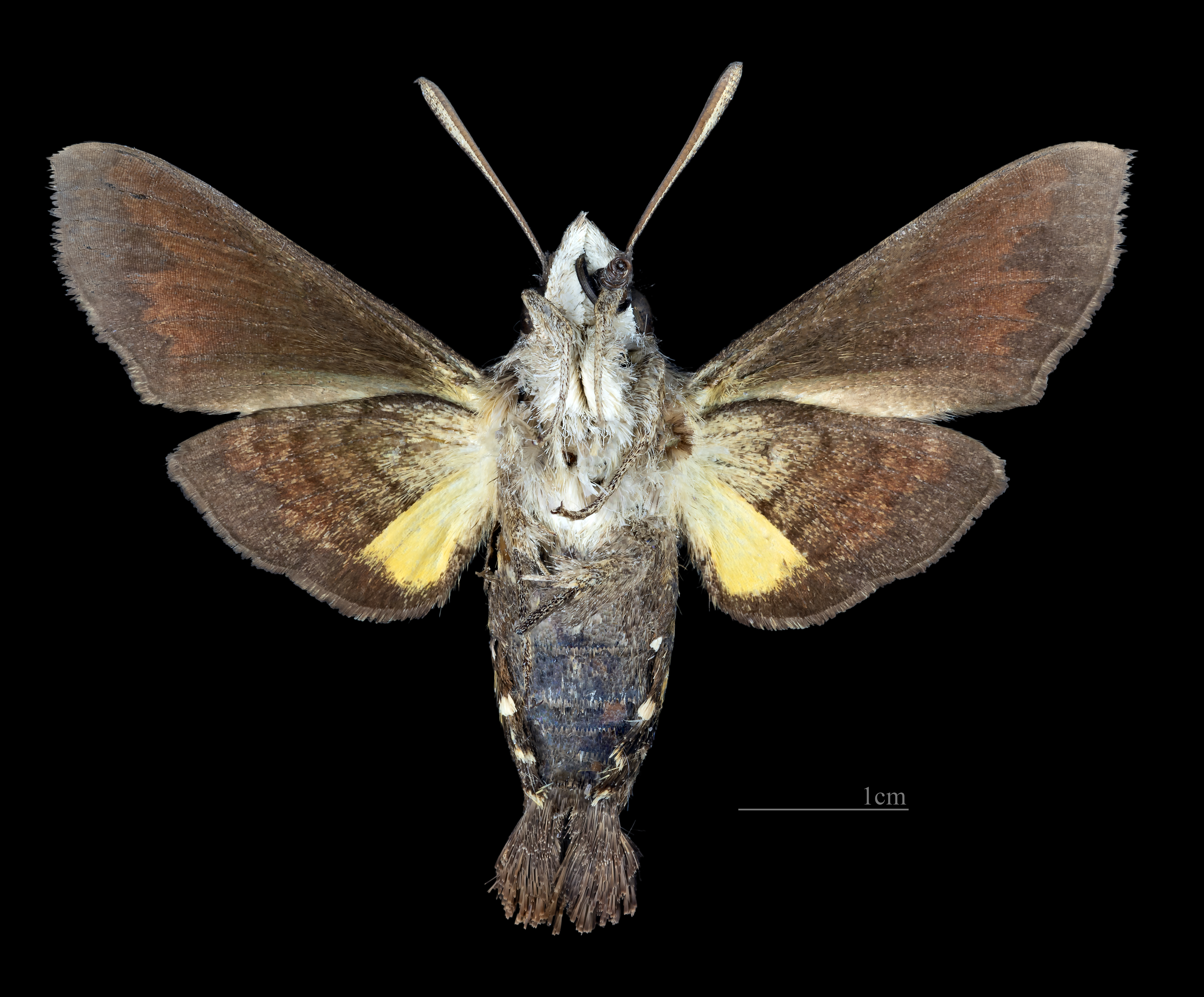 Macroglossum bifasciata - △ Ventral side Collection of the Mathematician Laurent Schwartz